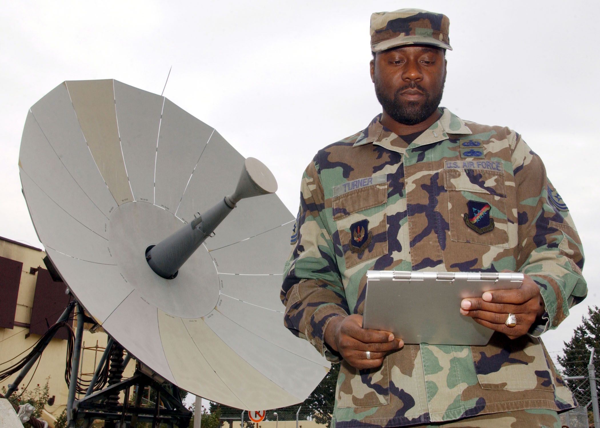 INCIRLIK AIR BASE, Turkey -- Tech. Sgt. Glynis Turner inspects satellite communications equipment here. During his free time, he is the Islamic lay leader for the base chapel which welcomes all religions. Turner is a quality assurance evaluator with the 39th Communications Squadron. (U.S. Air Force photo by Airman 1st Class Joseph Thompson)